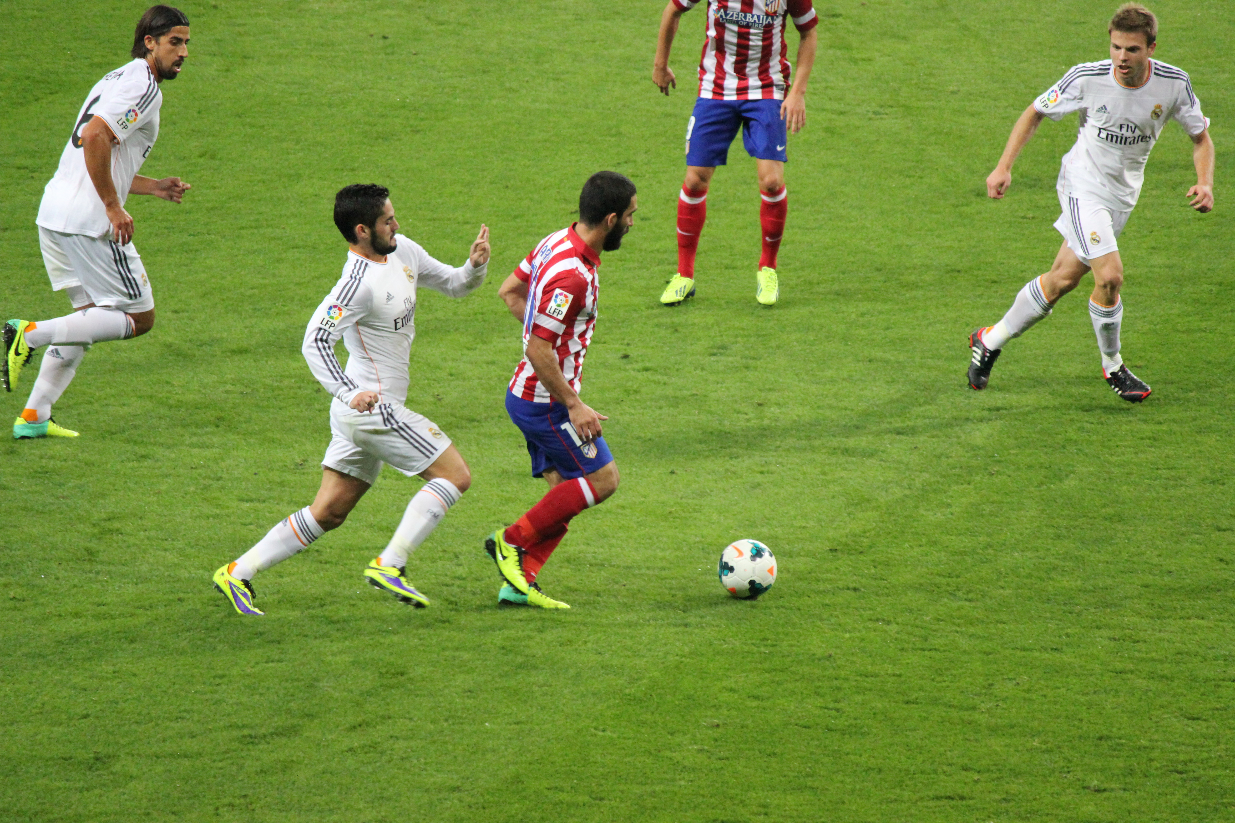 Real Madrid vs. Atlético Madrid 28 September 2013. Arda Turan for Atlético.